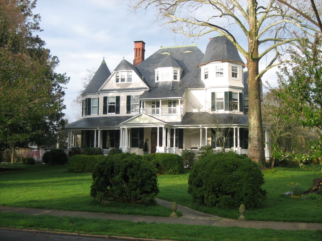 Photograph of the National Register property in Snow Hill, Maryland, USA. The 1889 Queen Anne Victorian house was designed by architect Jackson Gott for John Walter Smith, later Governor of Maryland, 1900-1904.